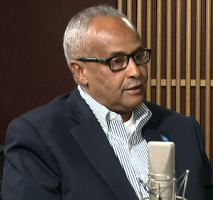 Foreign Minister of Somalia Abdisalam Omer.